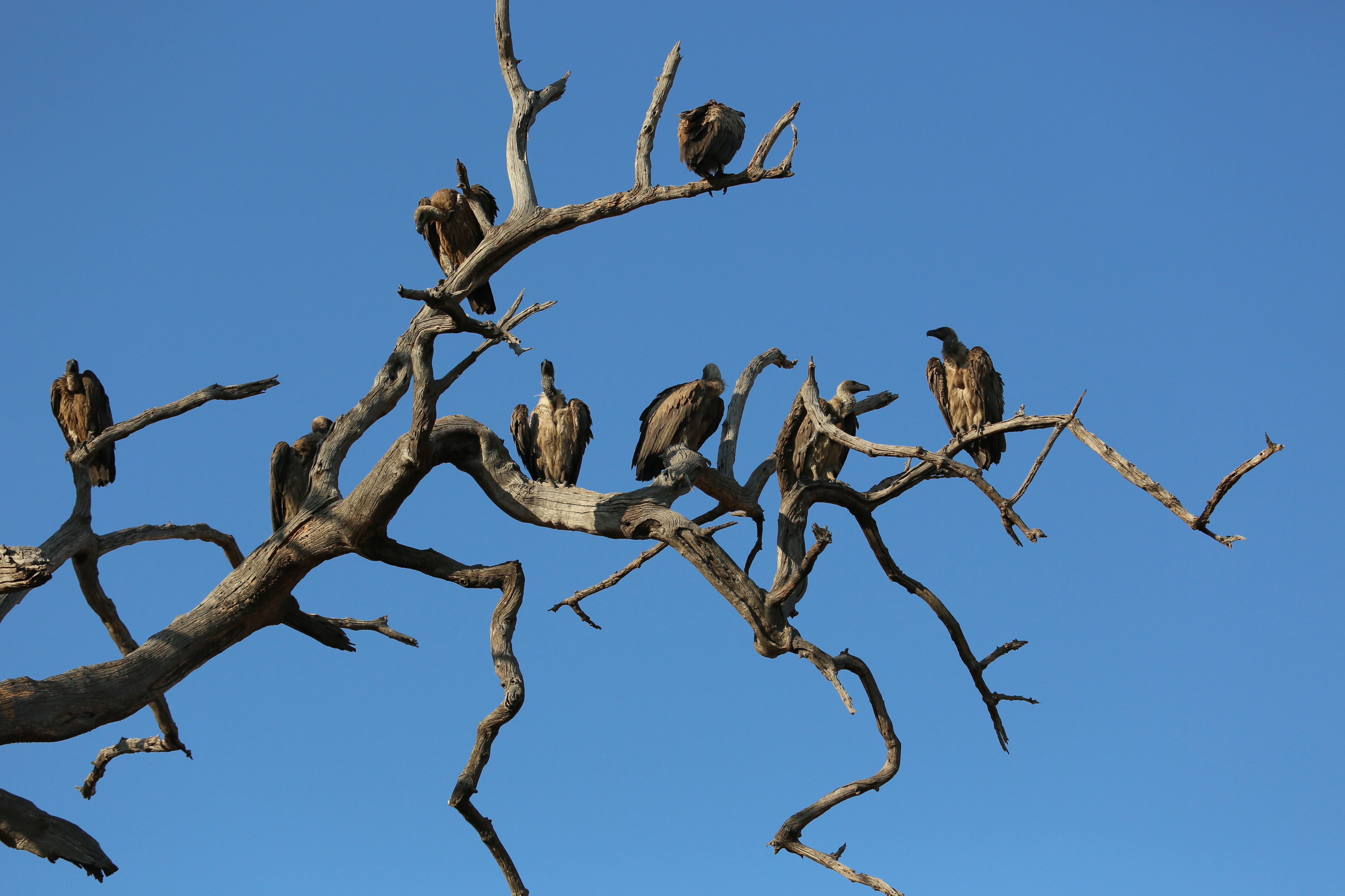 Several White-backed Vultures (Gyps africanus) near Cuando River, Chobe National Park in Botswana.